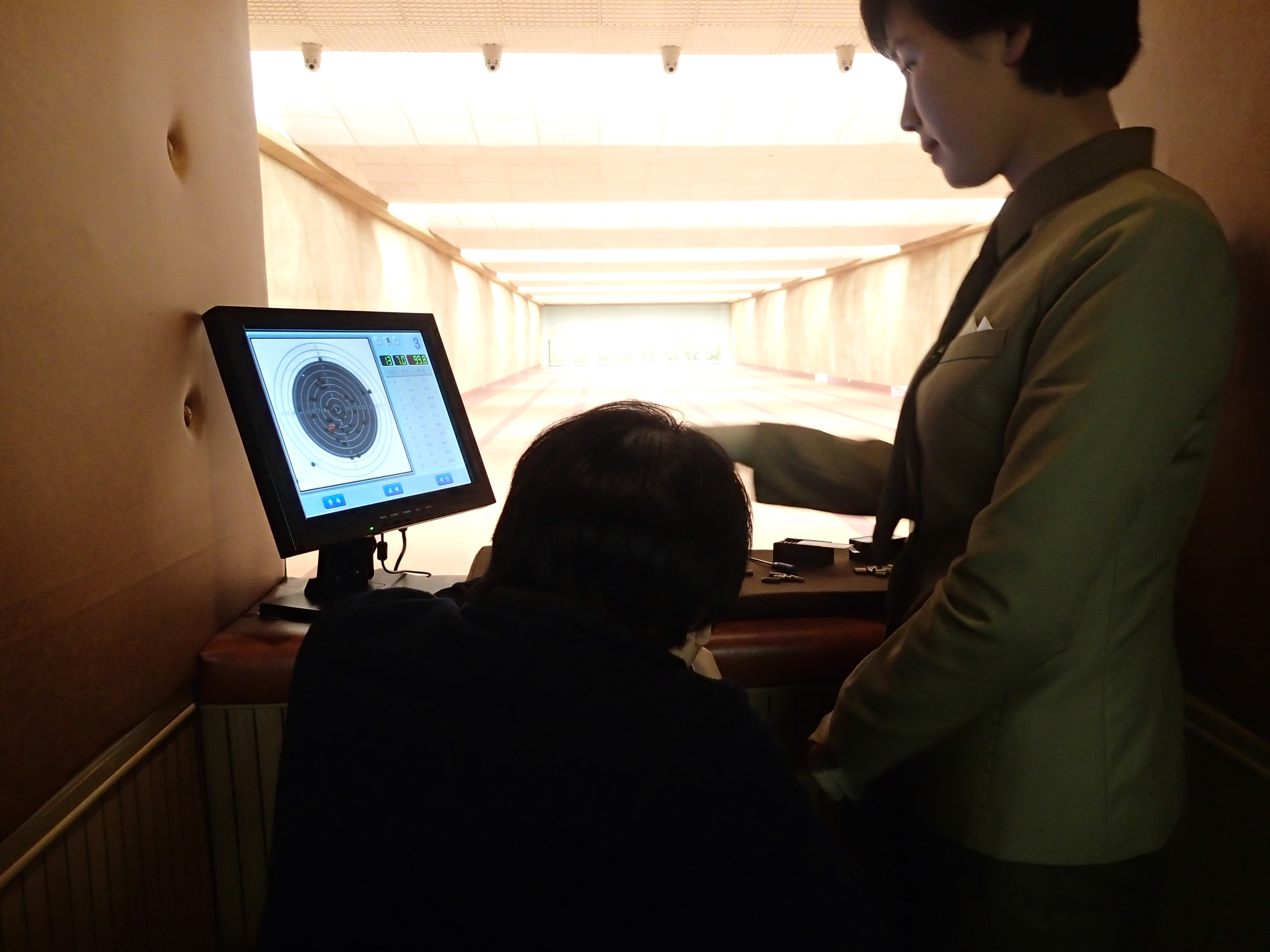 Meari Shooting Range